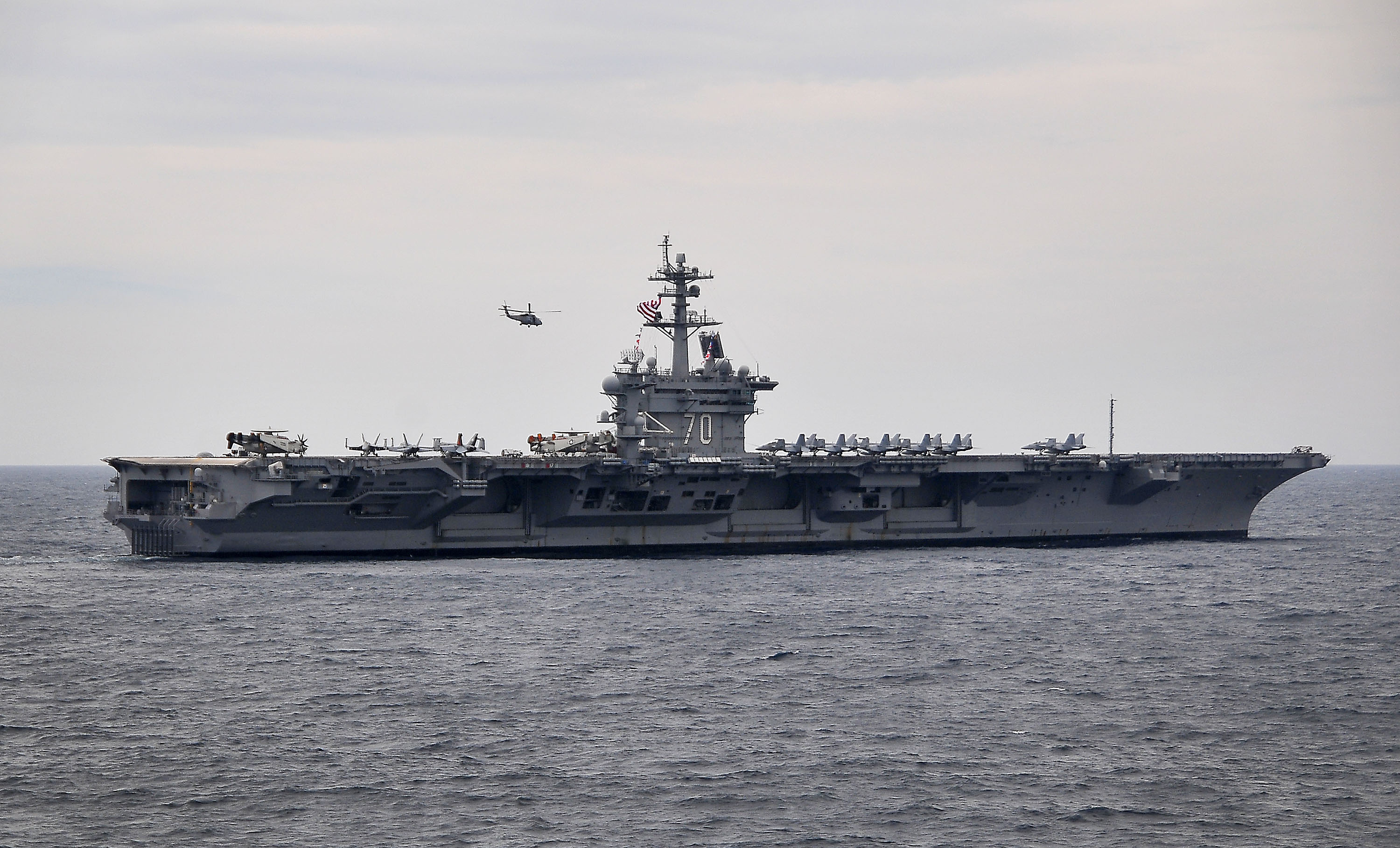 ATLANTIC OCEAN (March 8, 2010) A helicopter flies over the Nimitz-class aircraft carrier USS Carl Vinson (CVN 70) during Southern Seas 2010. Southern Seas is a U.S. Southern Command-directed operation that provides U.S. and international forces the opportunity to operate in a multi-national environment. (U.S. Navy photo by Mass Communication Specialist 2nd Class Daniel Barker/Released)